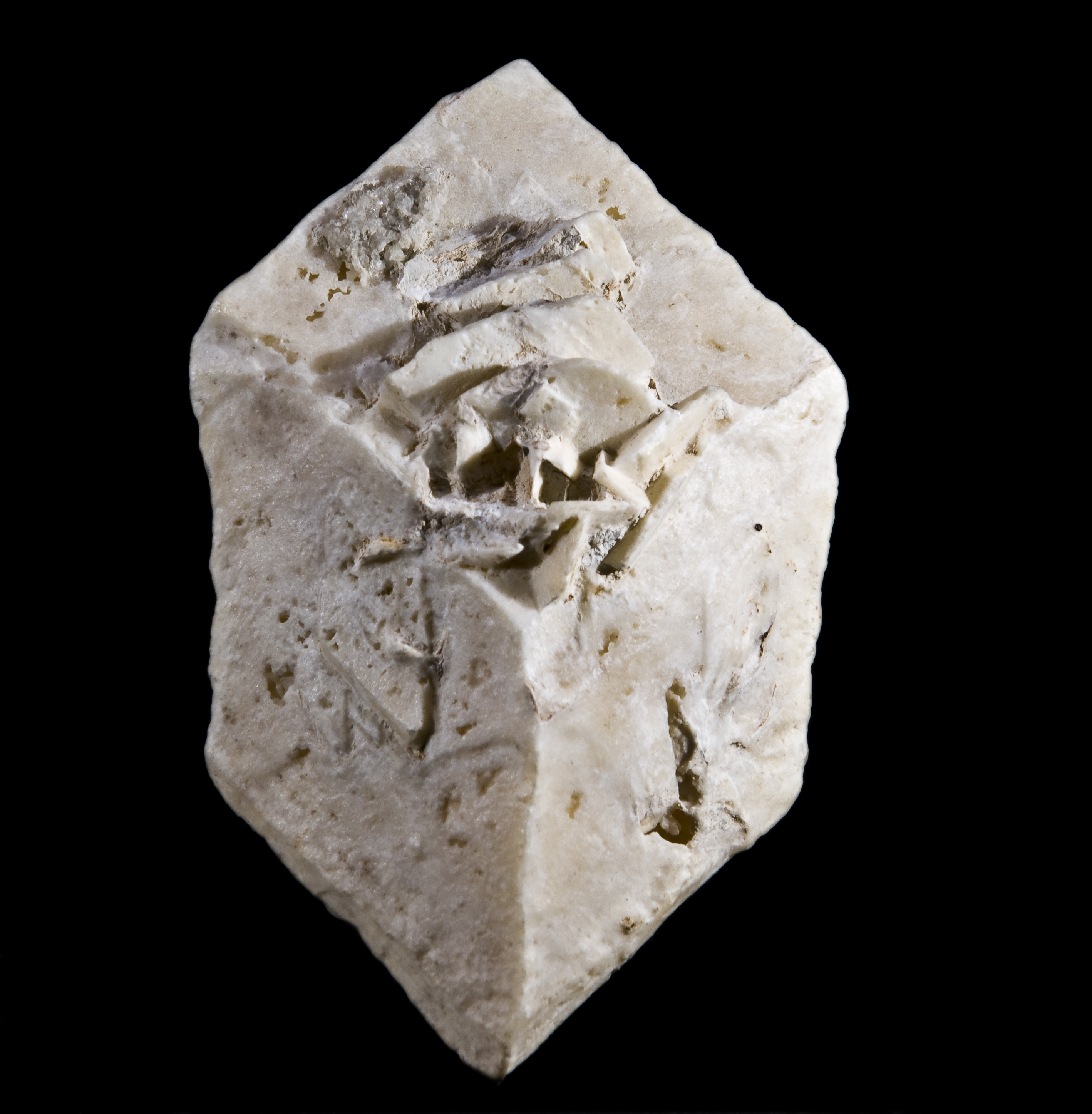 Glendonite:Calcite in pseudomorphosis of Glauberite Locality: Camp Verde, Camp Verde District, Yavapai County, Arizona, USA C Size 7x4.2cm